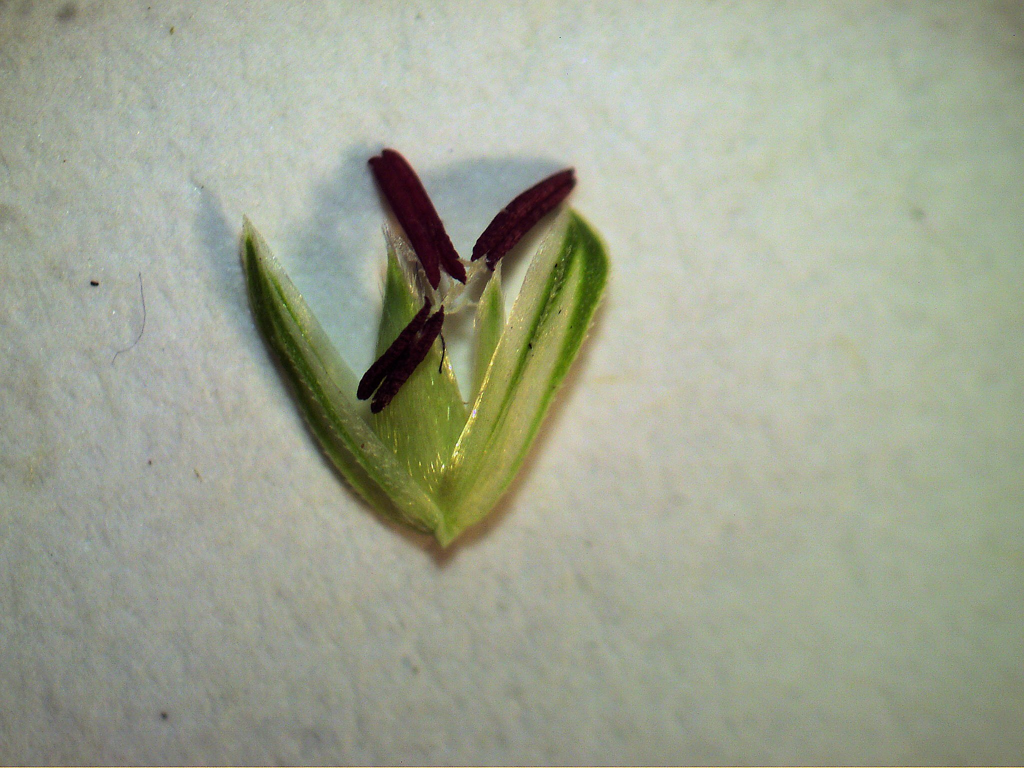 Spikelets have 2 large glumes that are longer than the florets (which they enclose) and their keels are winged near the apex. There are 2 small, equal-sized, sterile florets at the base of a larger, hairy, fertile floret.